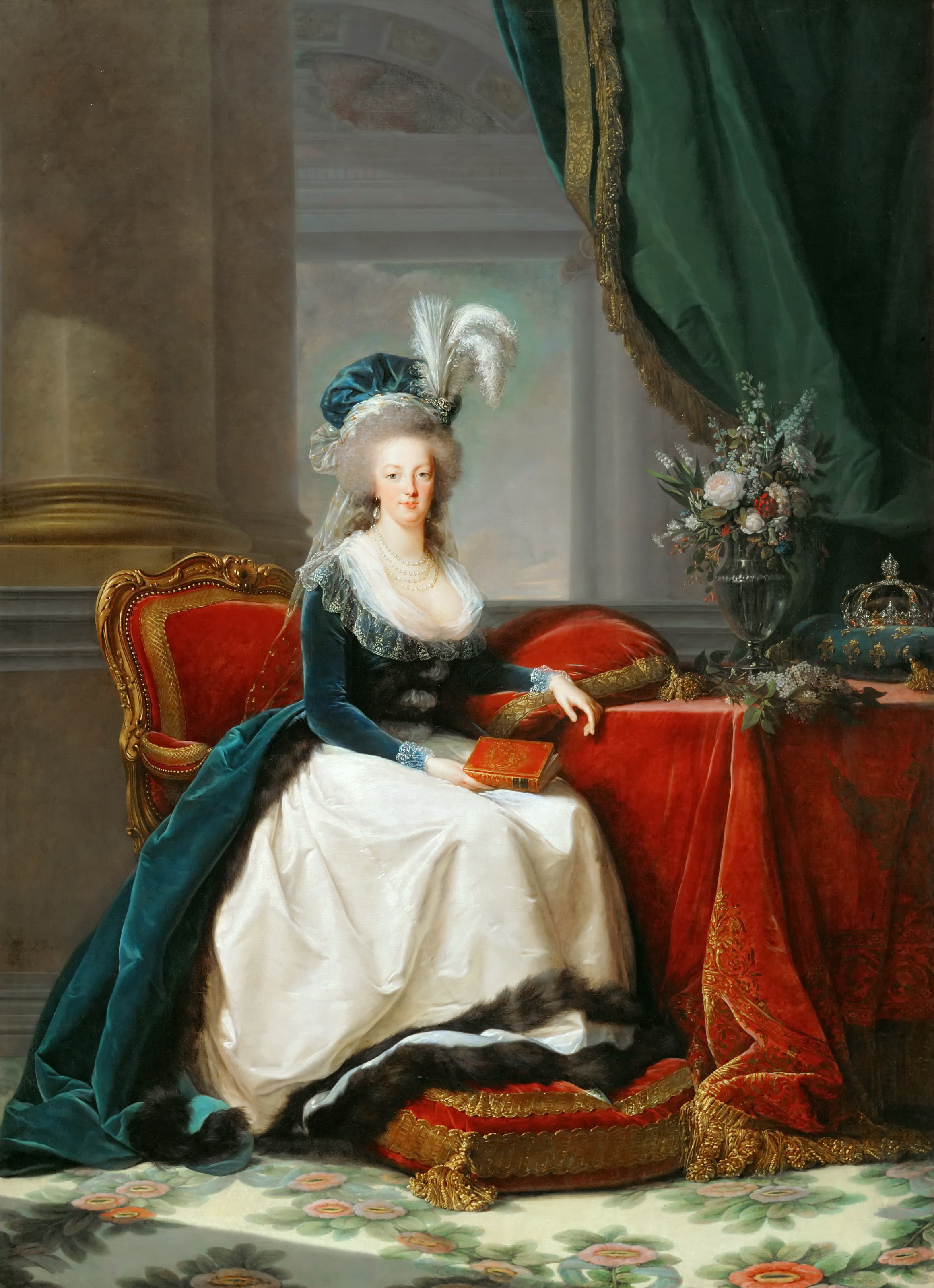 Marie Antoinette in blue coat and white dress holding a book (Élisabeth Vigée-Lebrun)